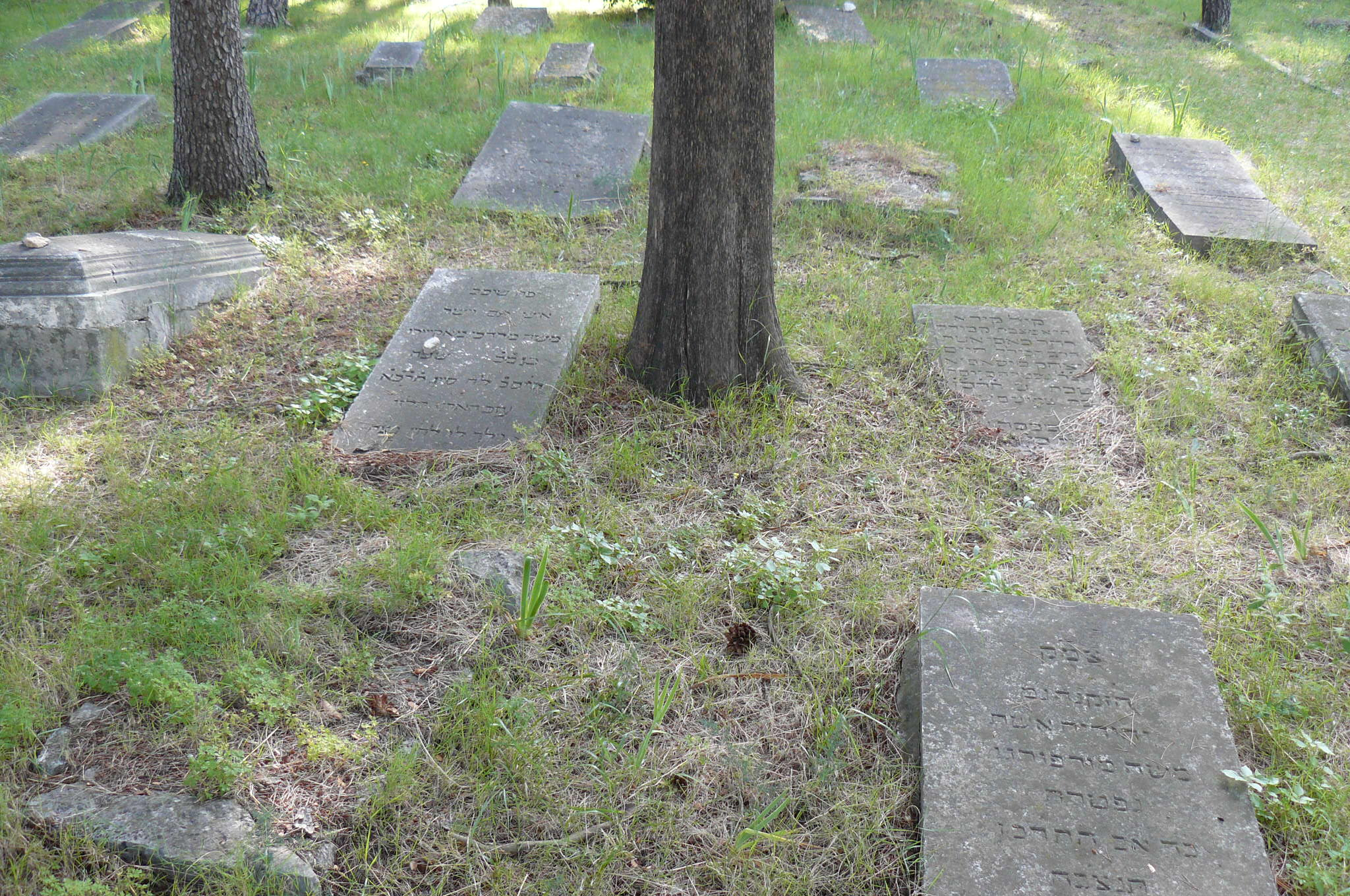 Jewish cemetery Split.